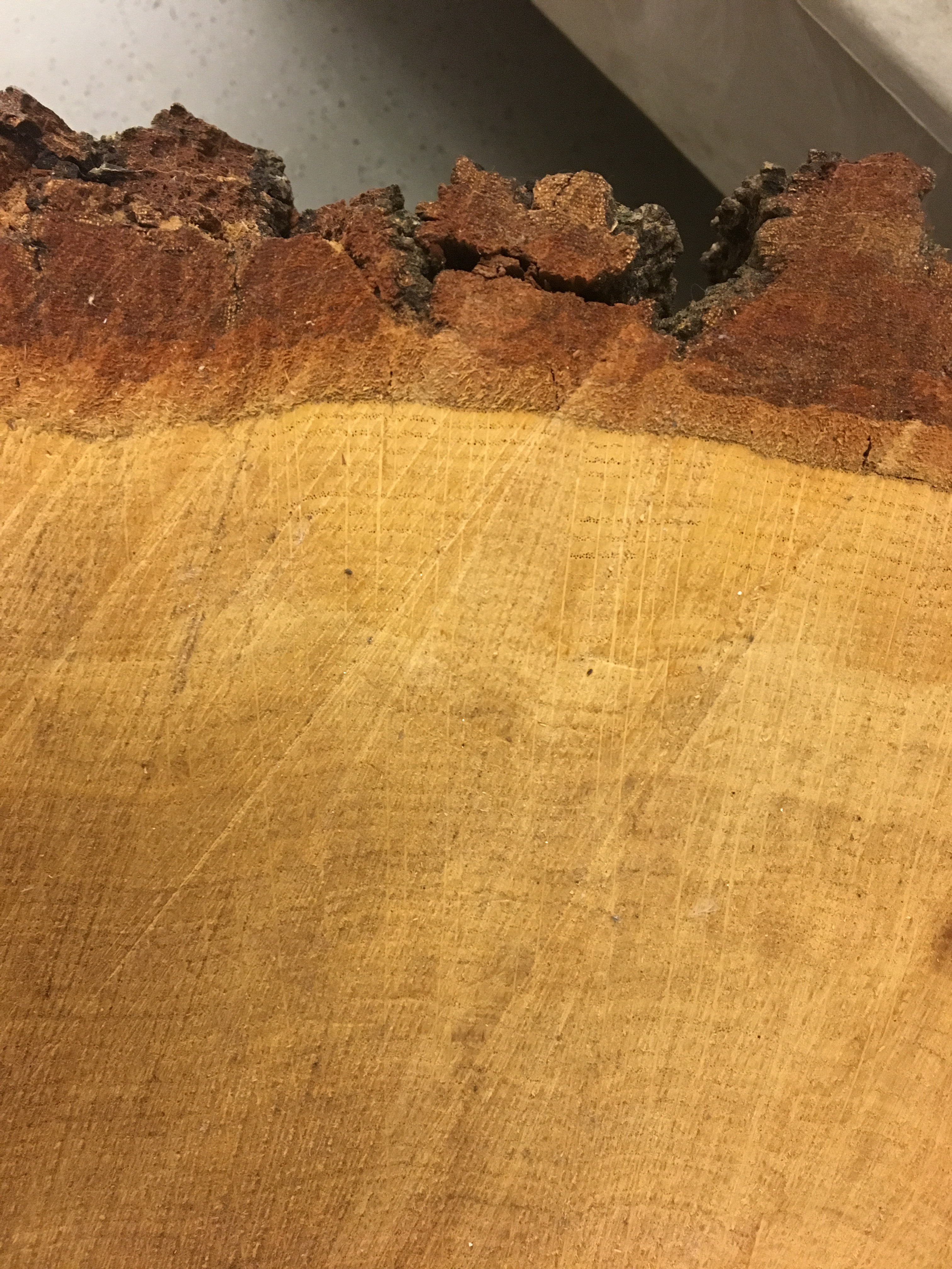 Yearly ring growth demonstrated by the light and dark sections of each ring